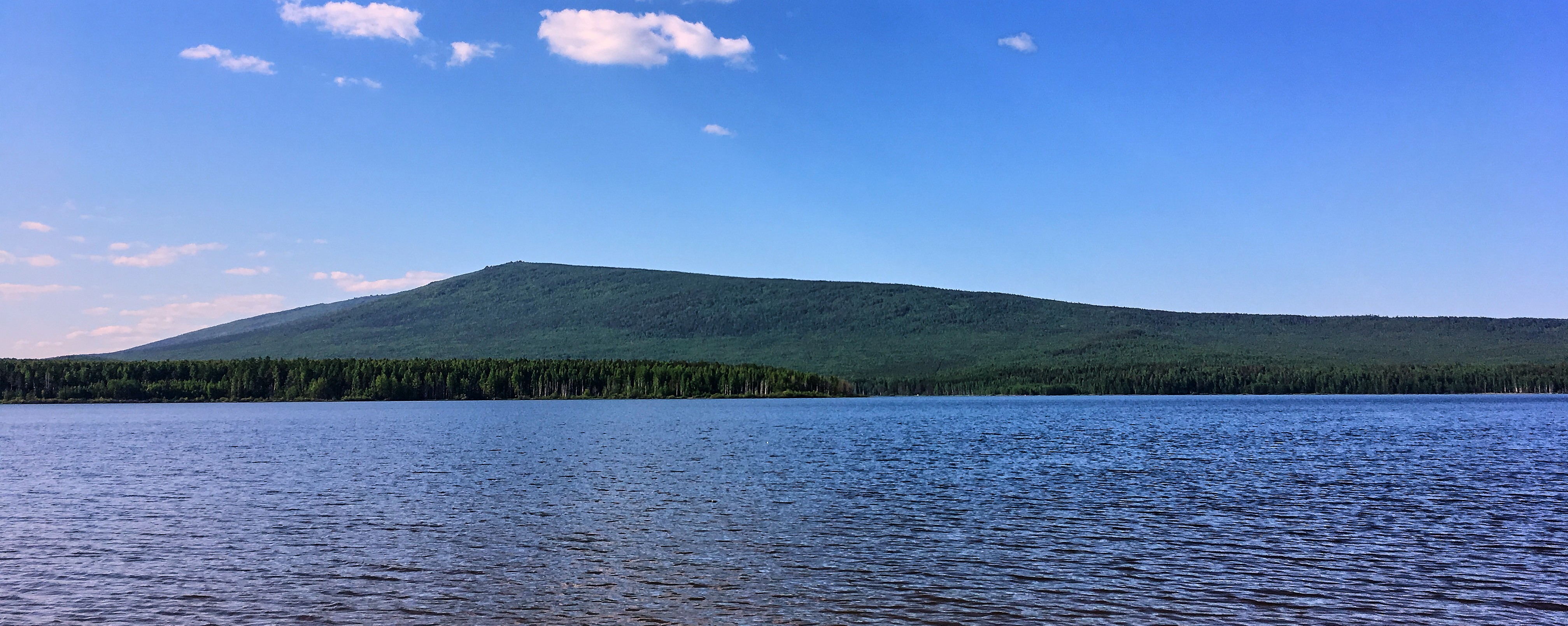 Kachkanar mountain and Viya river pond